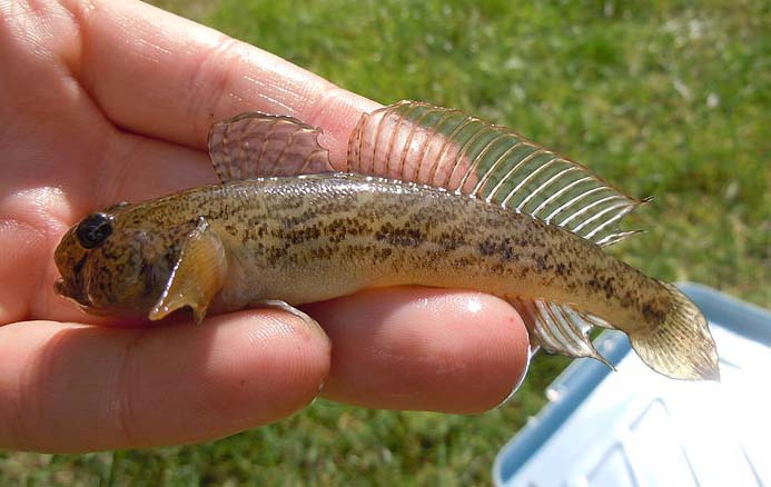 The racer goby (Babka gymnotrachelus) from the Bug River, Poland